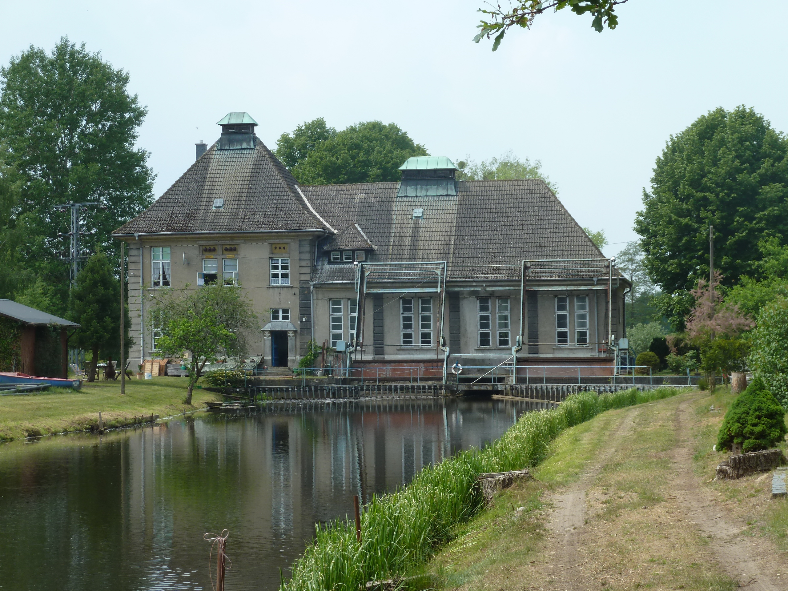 Hechtsforthsschleuse, Grabow (Meckl). Water power station at Elde river.